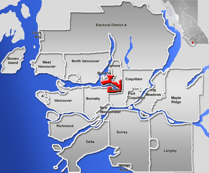 Location of Port Moody, Greater Vancouver Area, British Columbia